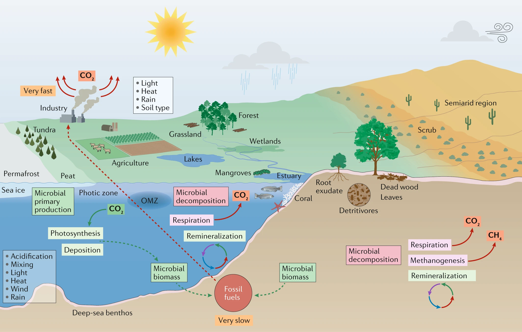 Microorganisms and climate change in marine and terrestrial biomes From: Scientists’ warning to humanity: microorganisms and climate change In marine environments, microbial primary production contributes substantially to CO2 sequestration. Marine microorganisms also recycle nutrients for use in the marine food web and in the process release CO2 to the atmosphere. In a broad range of terrestrial environments, microorganisms are the key decomposers of organic matter and release nutrients in the soil for plant growth as well as CO2 and CH4 into the atmosphere. Microbial biomass and other organic matter (remnants of plants and animals) are converted to fossil fuels over millions of years. By contrast, burning of fossil fuels liberates greenhouse gases in a small fraction of that time. As a result, the carbon cycle is extremely out of balance, and atmospheric CO2 levels will continue to rise as long as fossil fuels continue to be burnt. The many effects of human activities, including agriculture, industry, transport, population growth and human consumption, combined with local environmental factors, including soil type and light, greatly influence the complex network of microbial interactions that occur with other microorganisms, plants and animals. These interactions dictate how microorganisms respond to and affect climate change (for example, through greenhouse gas emissions) and how climate change (for example, higher CO2 levels, warming, and precipitation changes) in turn affect microbial responses. OMZ, oxygen minimum zone.